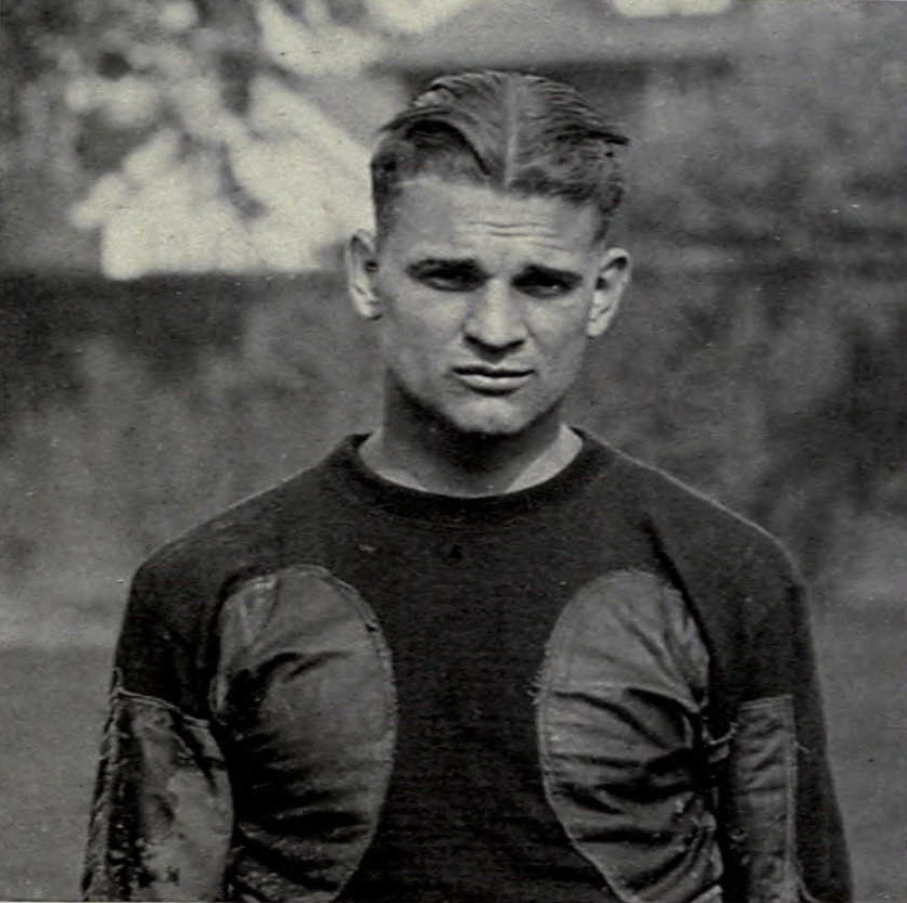 Photograph of Harry Kipke This work is in the public domain because it was published in the United States between 1923 and 1963 and although there may or may not have been a copyright notice, the copyright was not renewed. Unless its author has been dead for the required period, it is copyrighted in the countries or areas that do not apply the rule of the shorter term for US works, such as Canada (50 pma), Mainland China (50 pma, not Hong Kong or Macao), Germany (70 pma), Mexico (100 pma), Switzerland (70 pma), and other countries with individual treaties. See Commons:Hirtle chart for further explanation. This work is in the public domain because it was published in the United States between 1923 and 1977 and without a copyright notice. Unless its author has been dead for several years, it is copyrighted in jurisdictions that do not apply the rule of the shorter term for US works, such as Canada (50 p.m.a.), Mainland China (50 p.m.a., not Hong Kong or Macao), Germany (70 p.m.a.), Mexico (100 p.m.a.), Switzerland (70 p.m.a.), and other countries with individual treaties. See this page for further explanation.